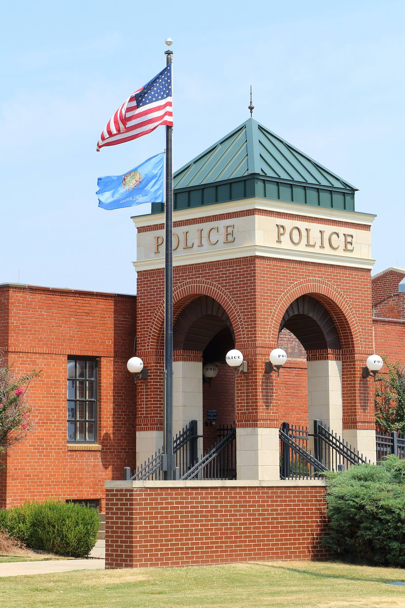 OCPD Bricktown Sub-station